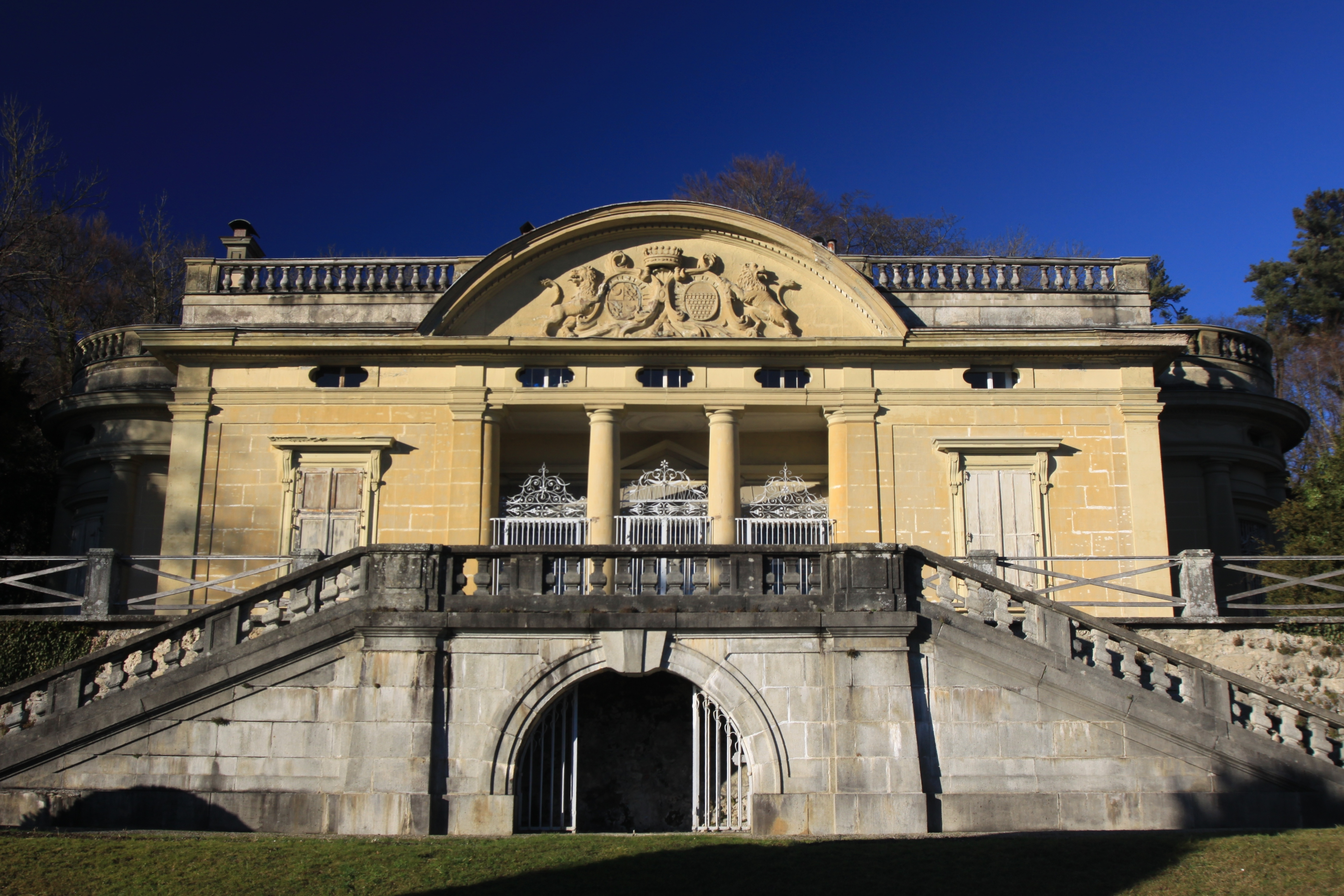 Castle of La Poya, Rue de Morat 44-48, Fribourg